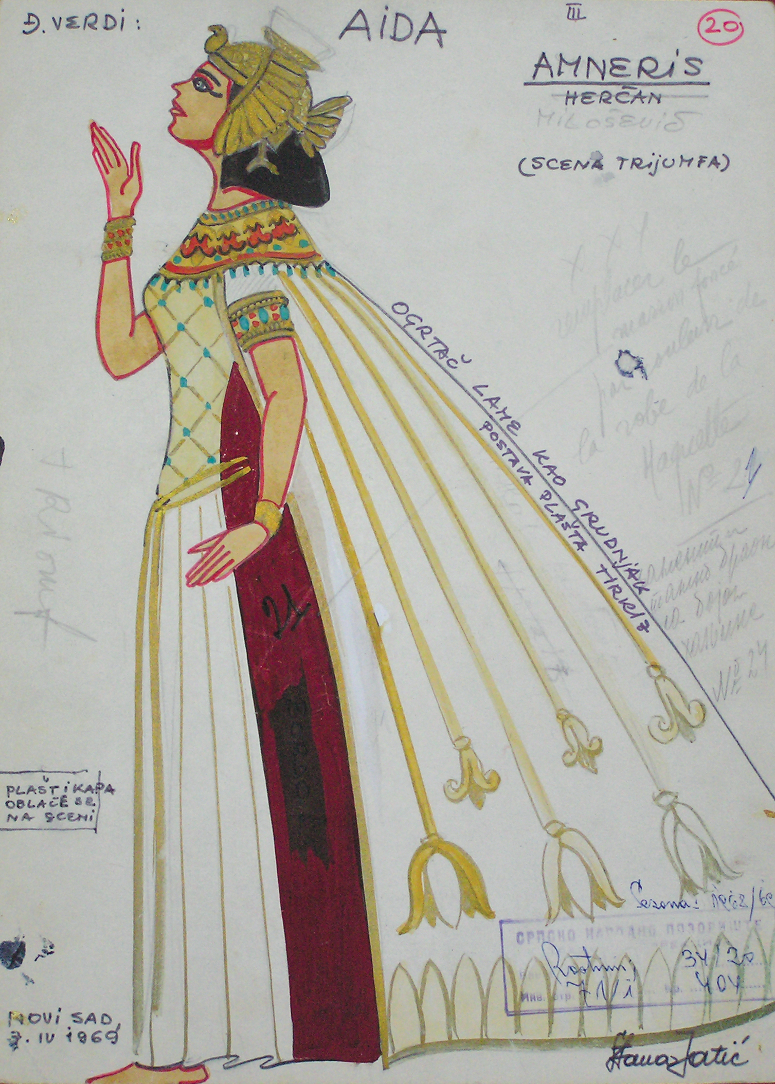 Stana Jatić, Aida, G. Verdi, SNT, Novi Sad, 1969. Srpski (latinica): Stana Jatić, Aida, Đ. Verdi, SNP, Novi Sad, 1969. Аҧсшәа: Стана Јатић, Aида, Ђ. Верди, СНП, Нови Сад, 1969.